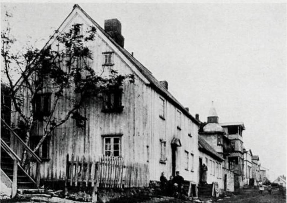 Gudmannsminde. The oldest hospital in Akureyri, Iceland. The house was built 1835. It was donated as an hospital by Carl Gudmann and was hospital 1873-1898 run by the council of Akureyri.